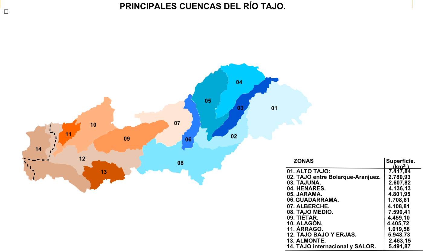 Major river basins of the Tagus River.